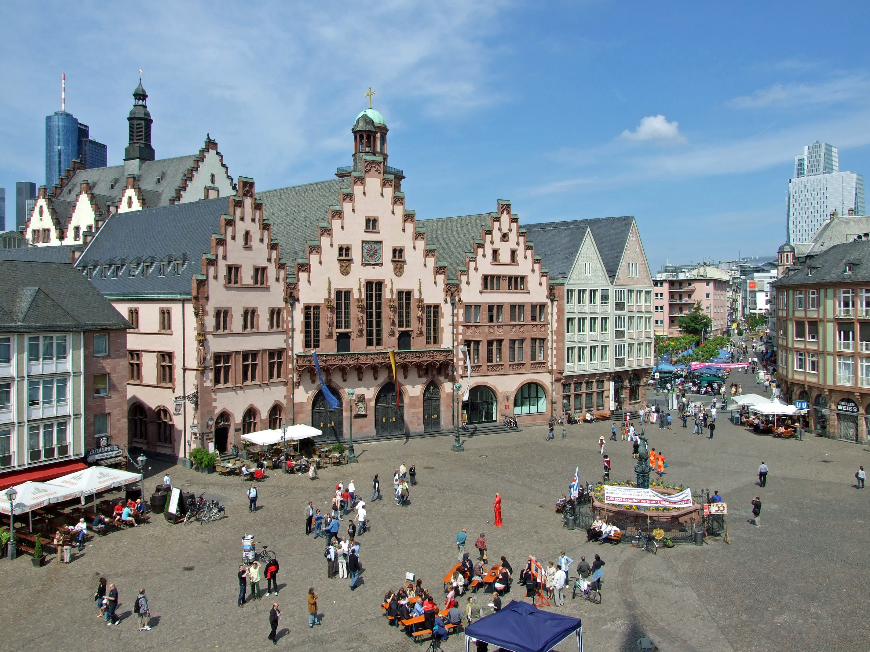 Roemerberg and Neue Kraeme in Frankfurt am Main